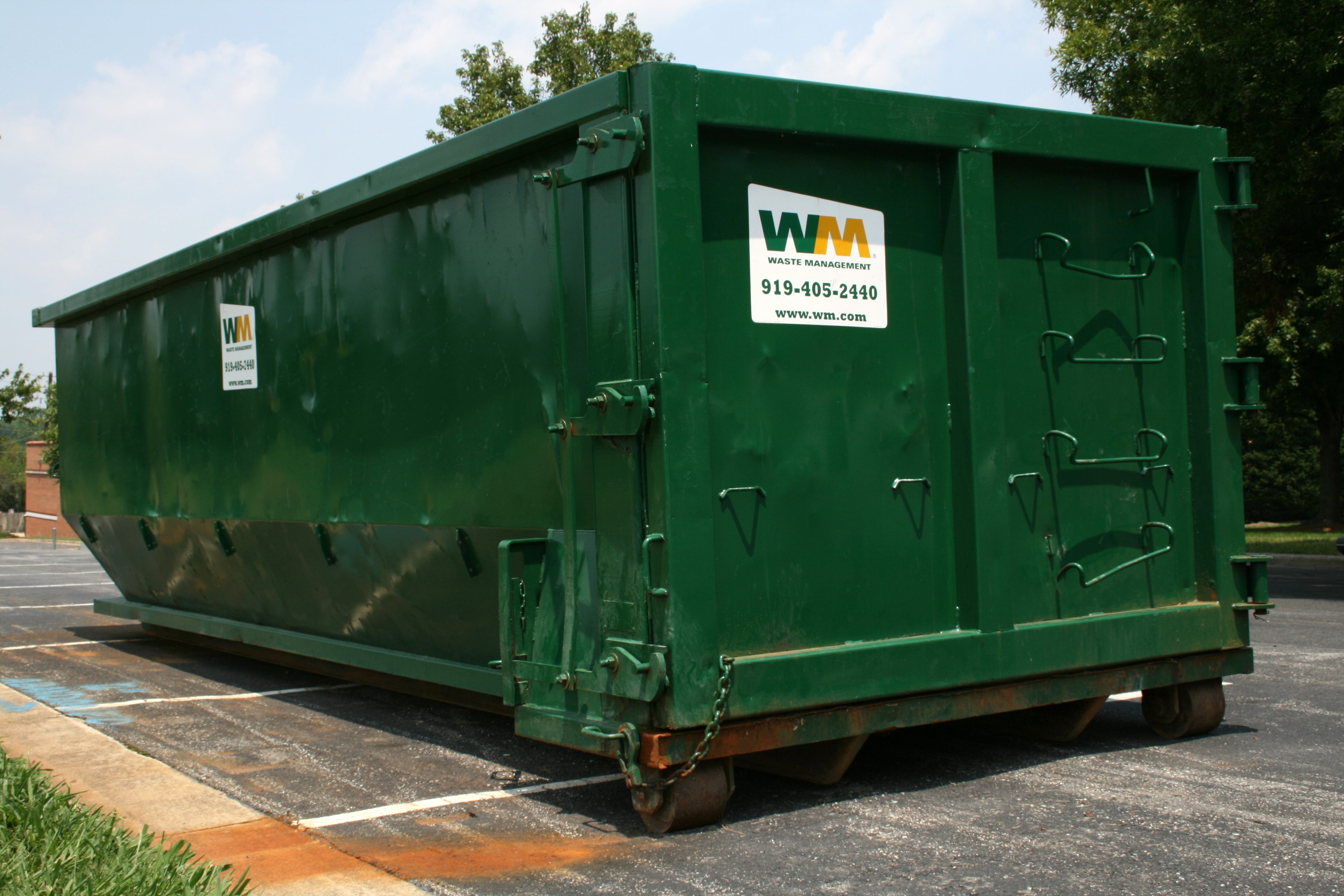 A green Waste Management rolloff rubbish container in a parking lot in Durham, North Carolina.